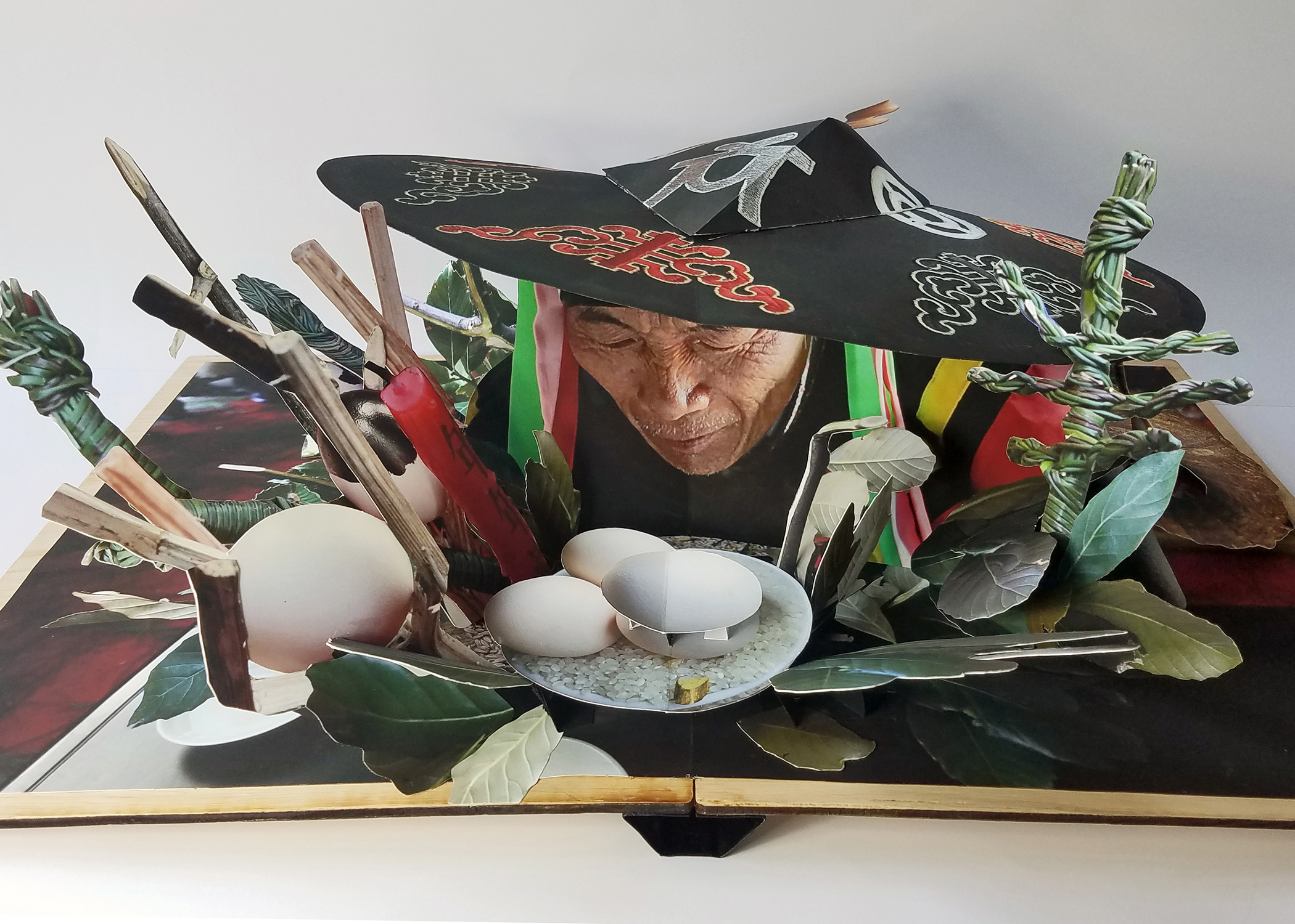 pop-up book